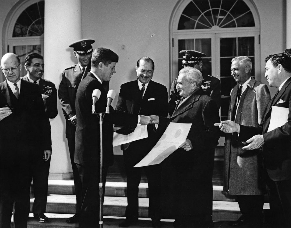 Presentation of the National Medal of Science to Dr. Theodore von Kármán, 12:15PM.